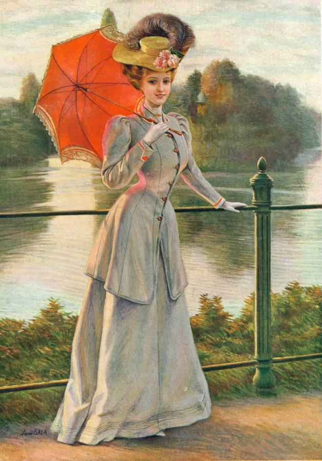 French Fashion plate published 1905, printed by Draeger Frères, with the caption HIGH-LIFE TAILOR, 12, Rue Auber et 112, Rue Richelieu